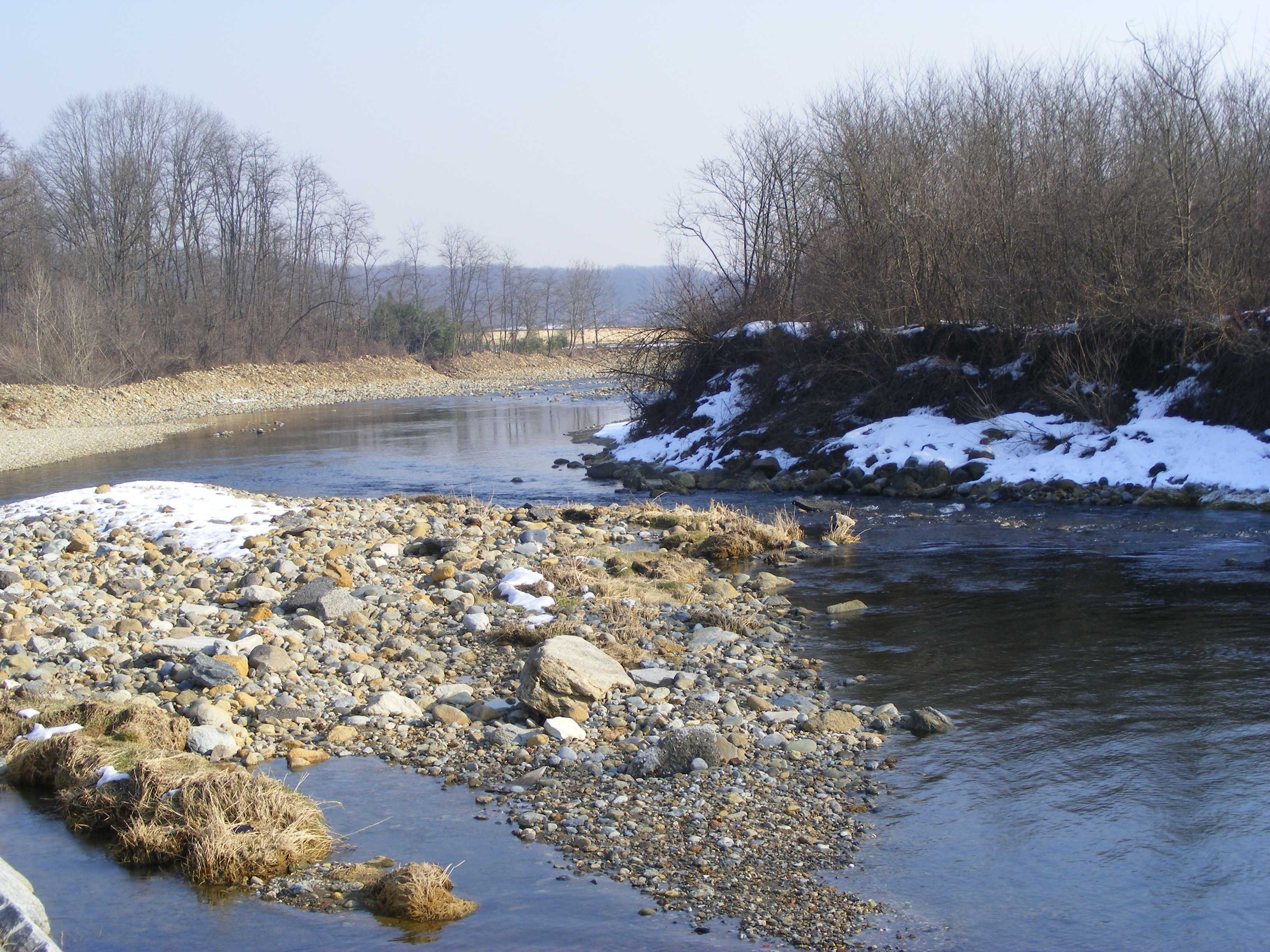 Casternone and Ceronda creek near Druento (Piedmont, Italy)